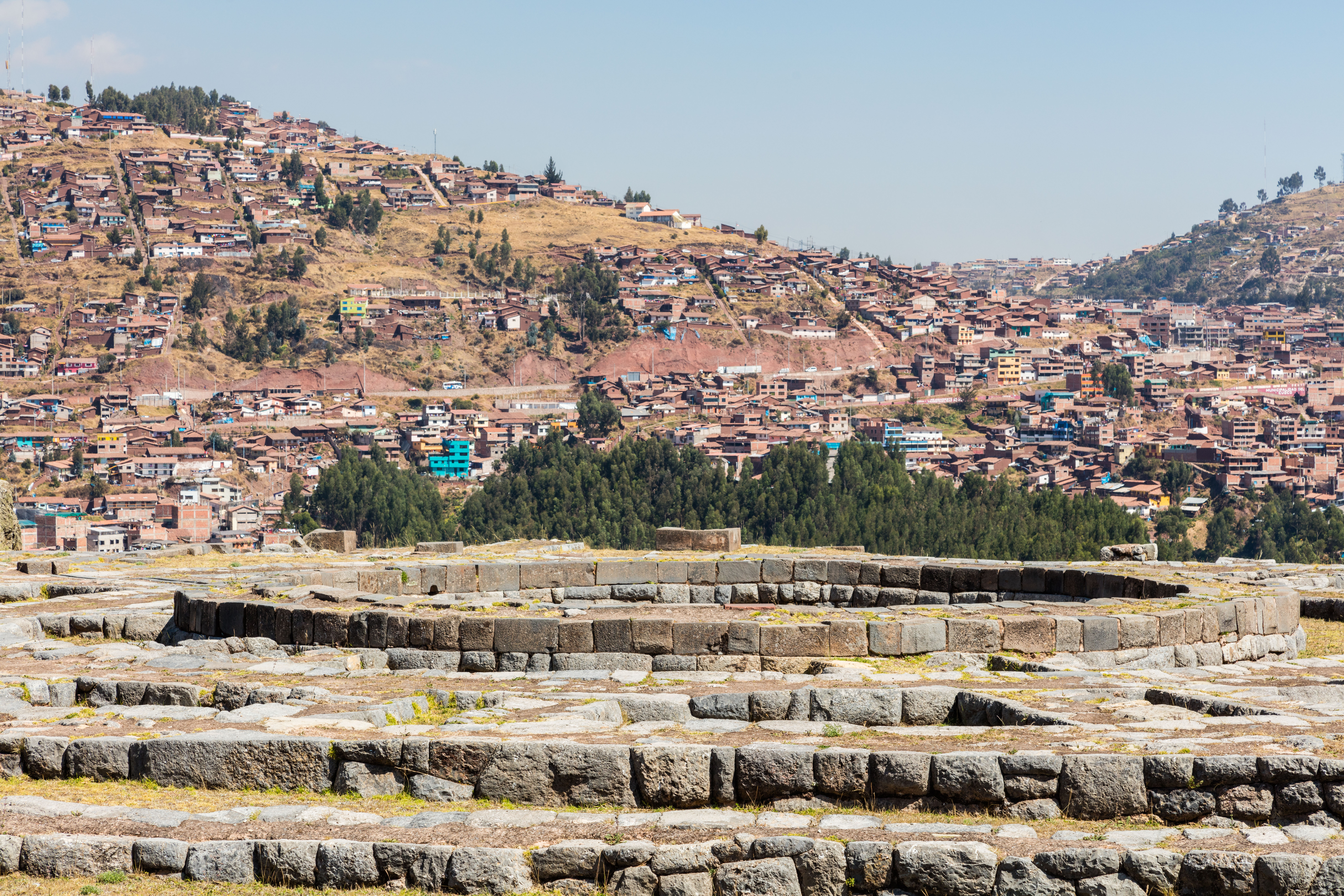 Sacsayhuamán, Cusco, Peru